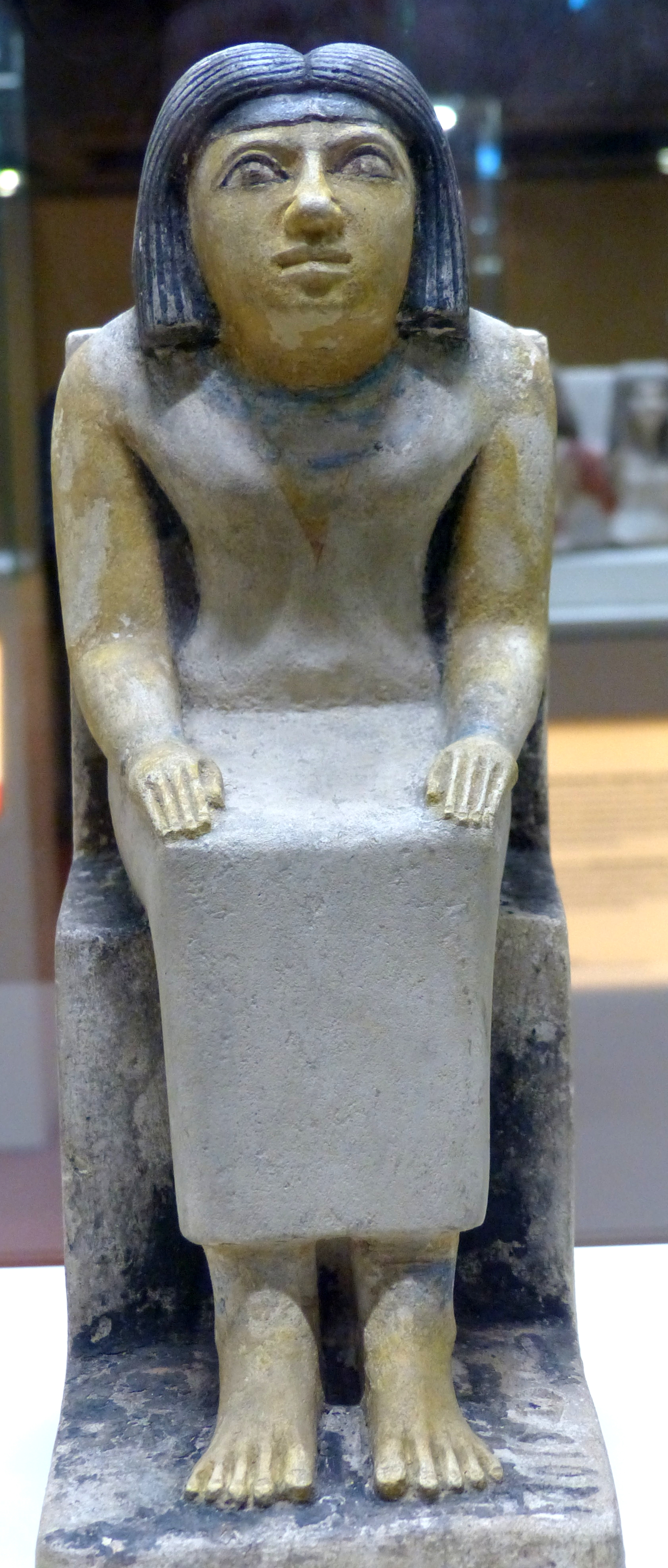 Rosenheim ( Upper Bavaria ). Lokschuppen exhibition centre - "Pharao" exhibition ( 2017 ): Sitting statue of Nebet-Pedjet from the necropolis of Giza, Old Kingdom, 6th dynasty ( 2200 BC )